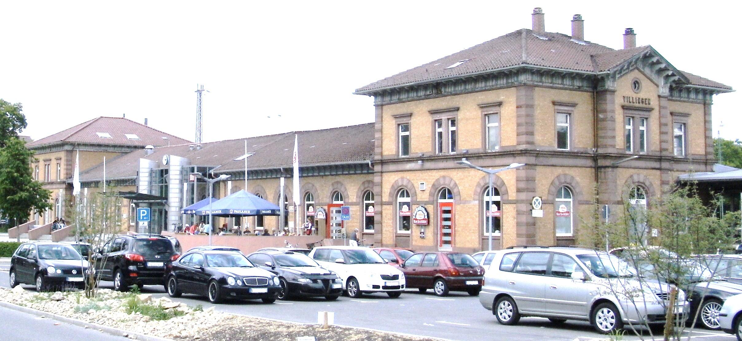 Railway Station of Villingen, Villingen-Schwenningen